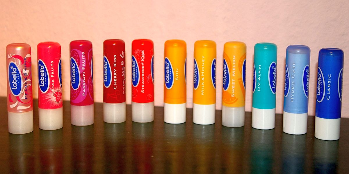 Labello-Sorten, Stand 2008